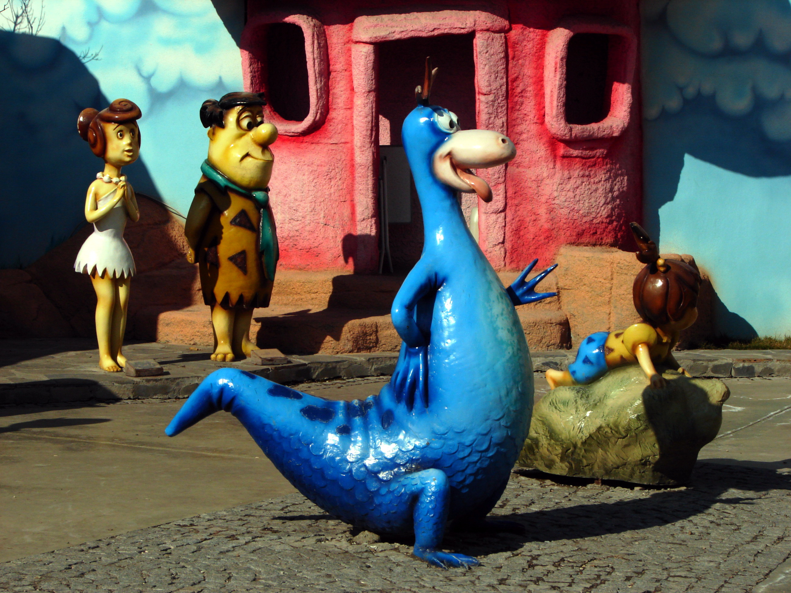 Fred, Wilma, Pebbles Flintstone and Dino figurines at the Ankara Public Amusement Park